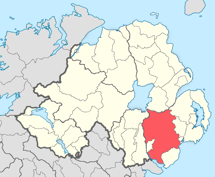 Map of the former barony of Iveagh prior to its division in two